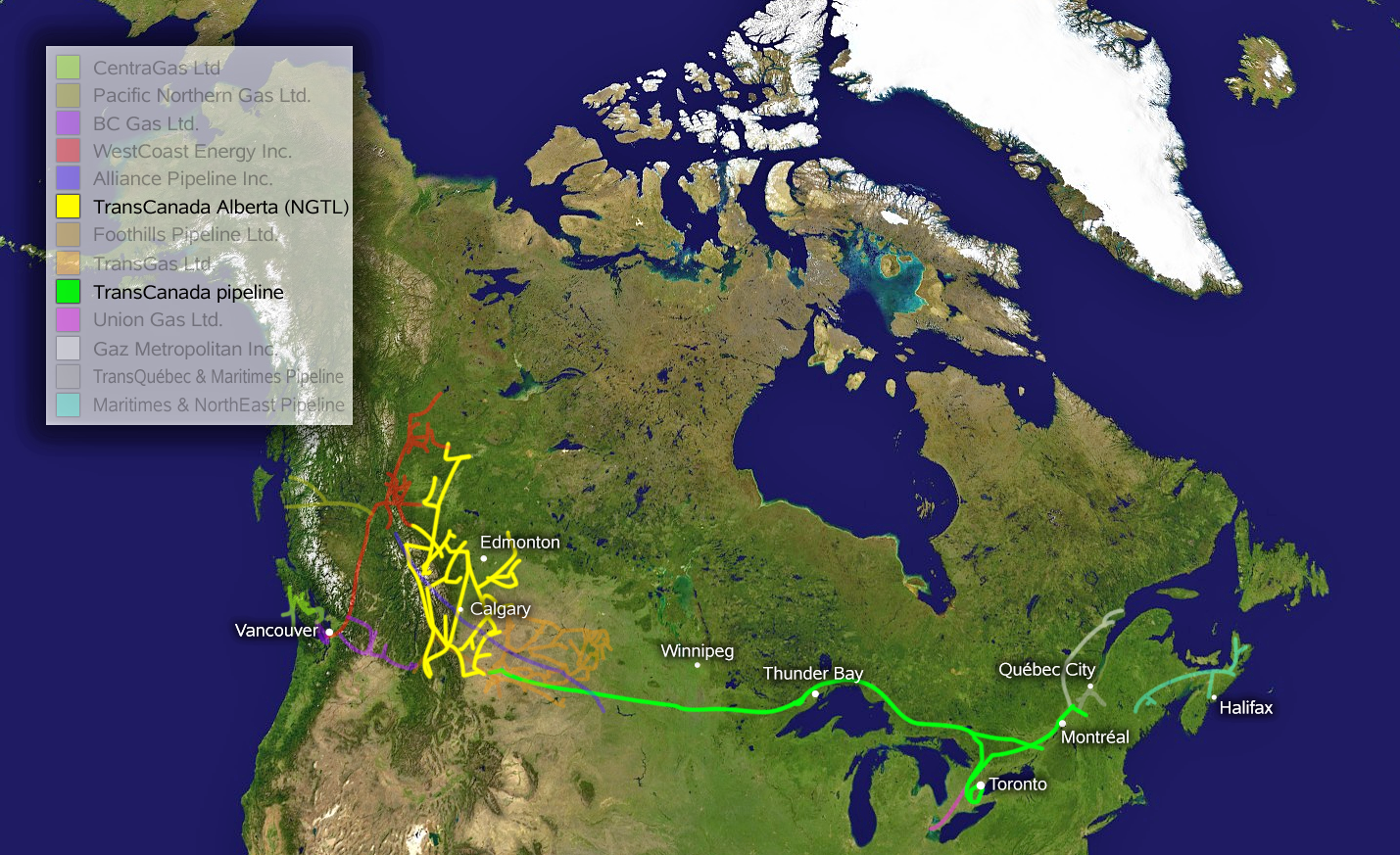 I created it, you enjoy it.